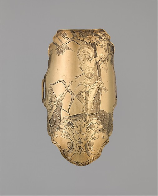 Bracer (1752), archer's arm guard; copper alloy (16 x 9.5 cm); Southern Netherlands (now Belgium); Metropolitan Museum of Art, New York